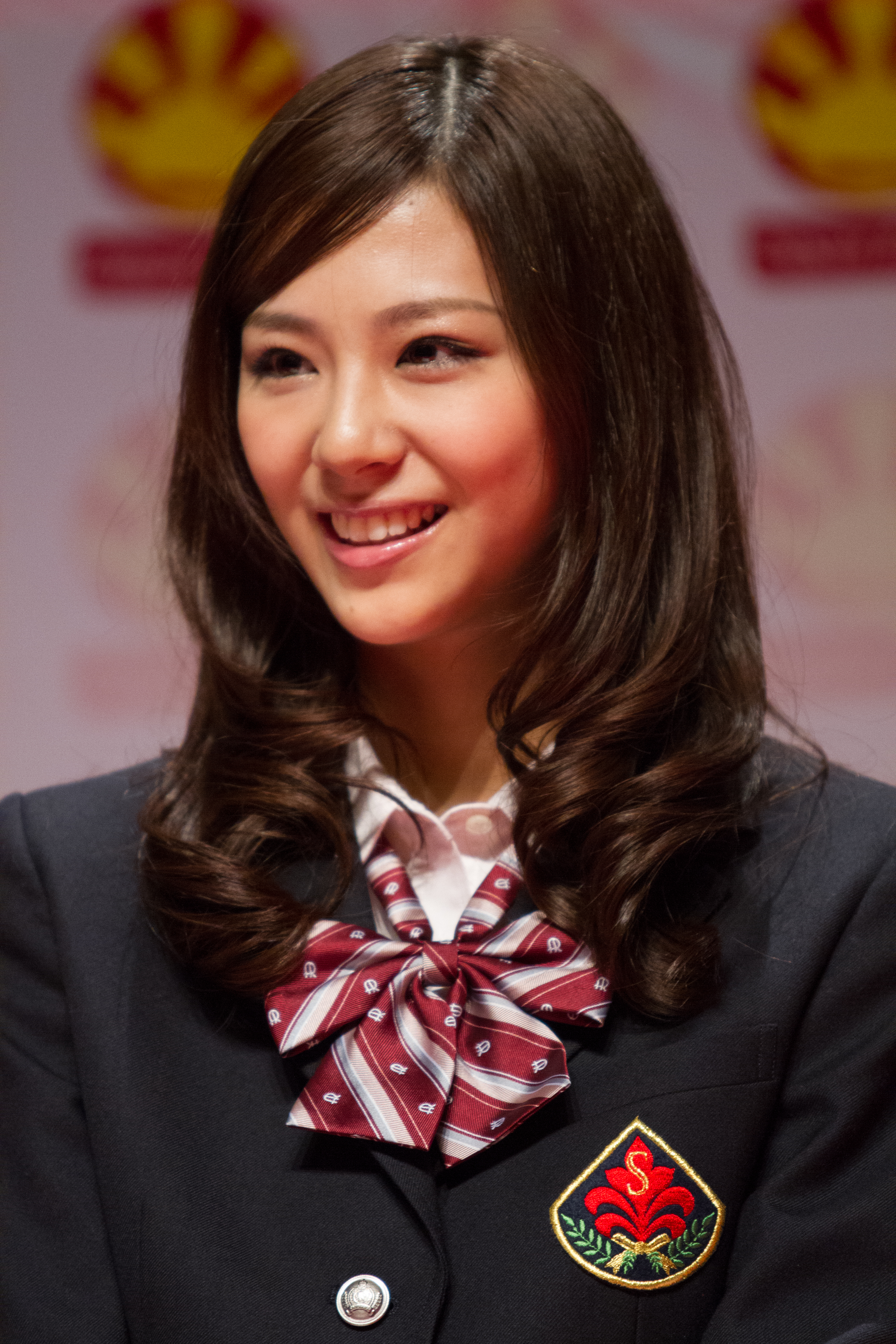 Mariya Nishiuchi during the presentation of the japanese television drama Switch Girl!! at Japan Expo 2012 (Paris, France)